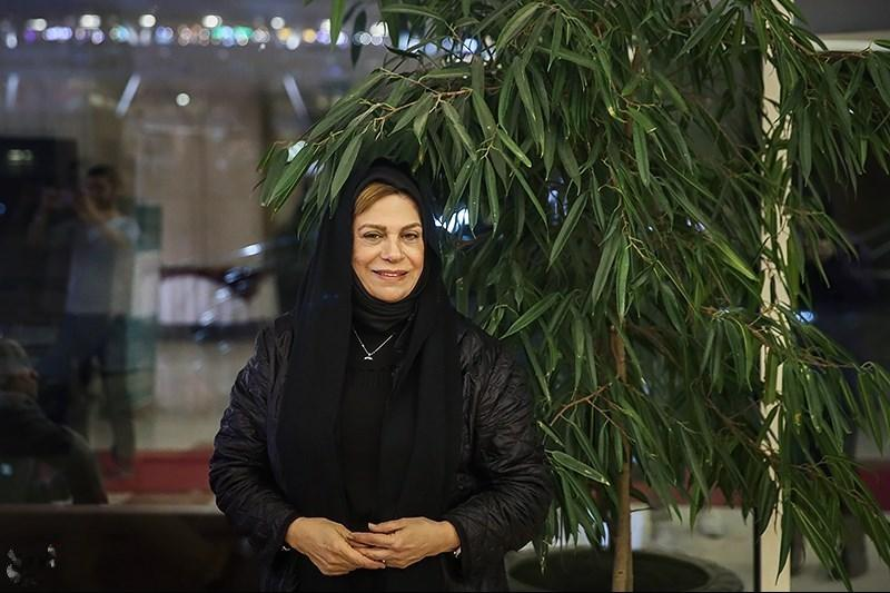 First day of 35th Fajr International Film Festival